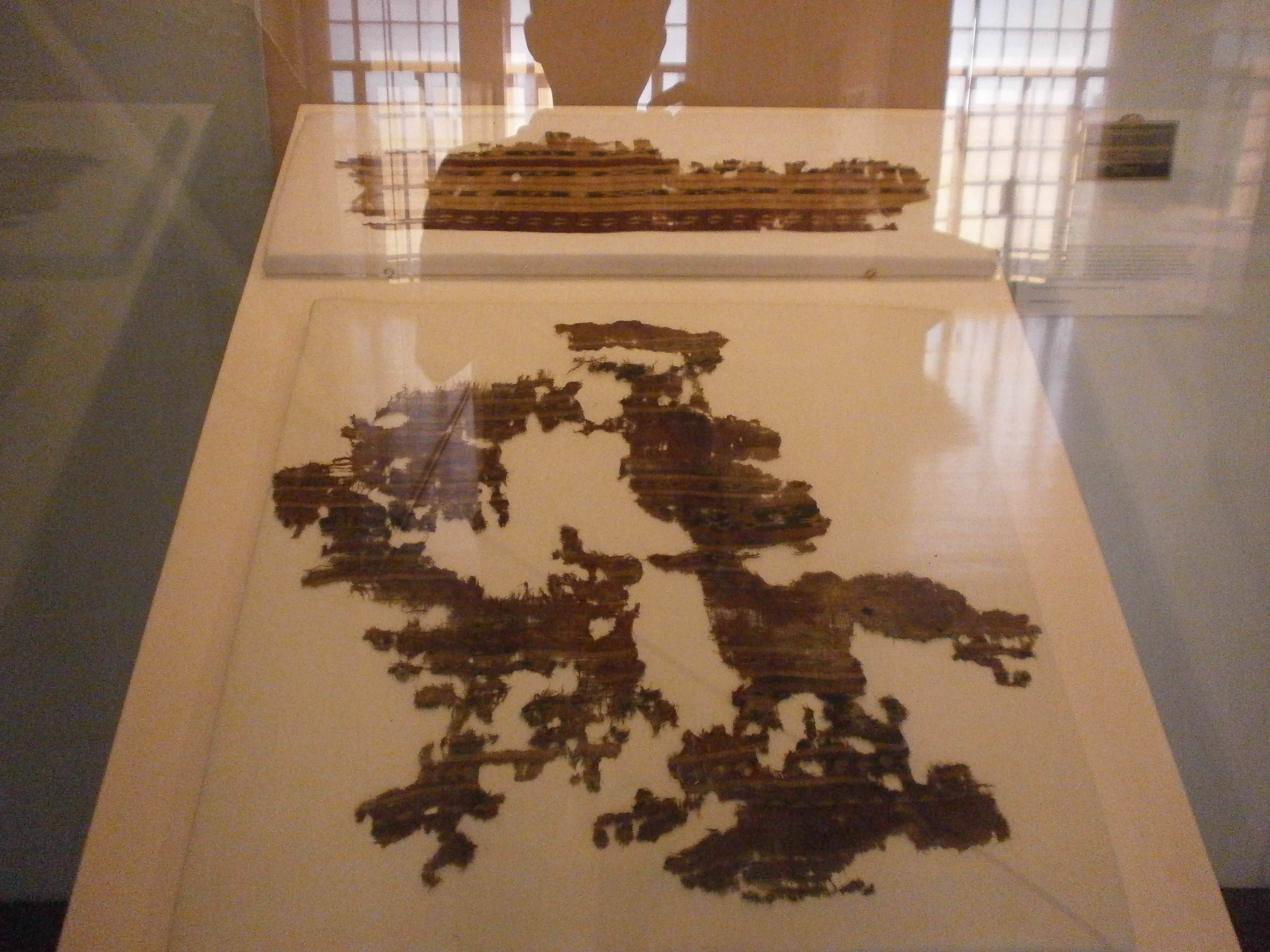 Banton Cloth or Banton Burial Cloth Tagalog: Telang Pangyumao ng Banton